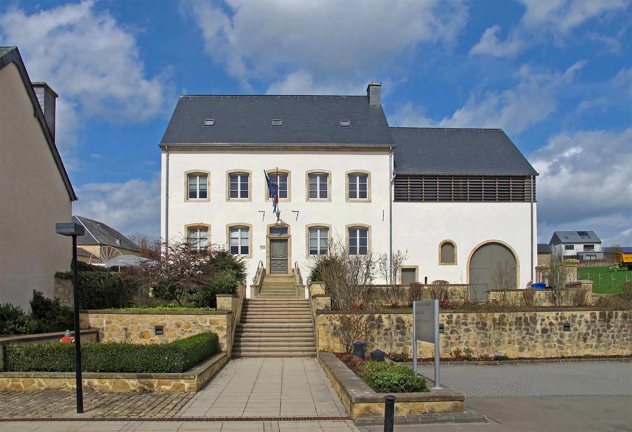 Town hall of Tuntange, Luxembourg